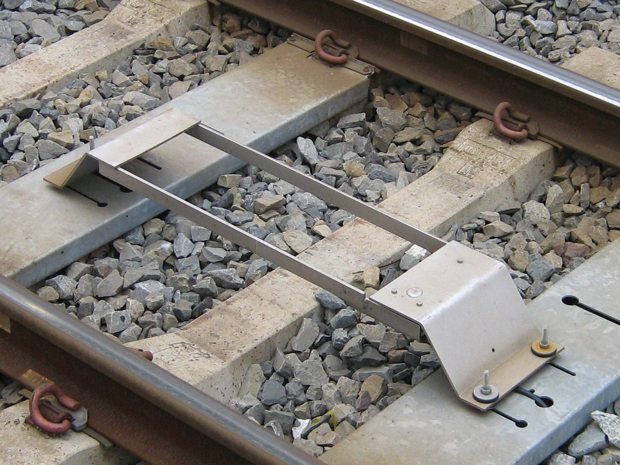 TBL1 balise in the station of Liège-Guillemins.